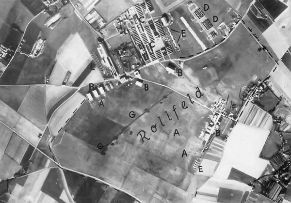 A Luftwaffe aerial photograph of RAF Manston airfield taken in 1939.